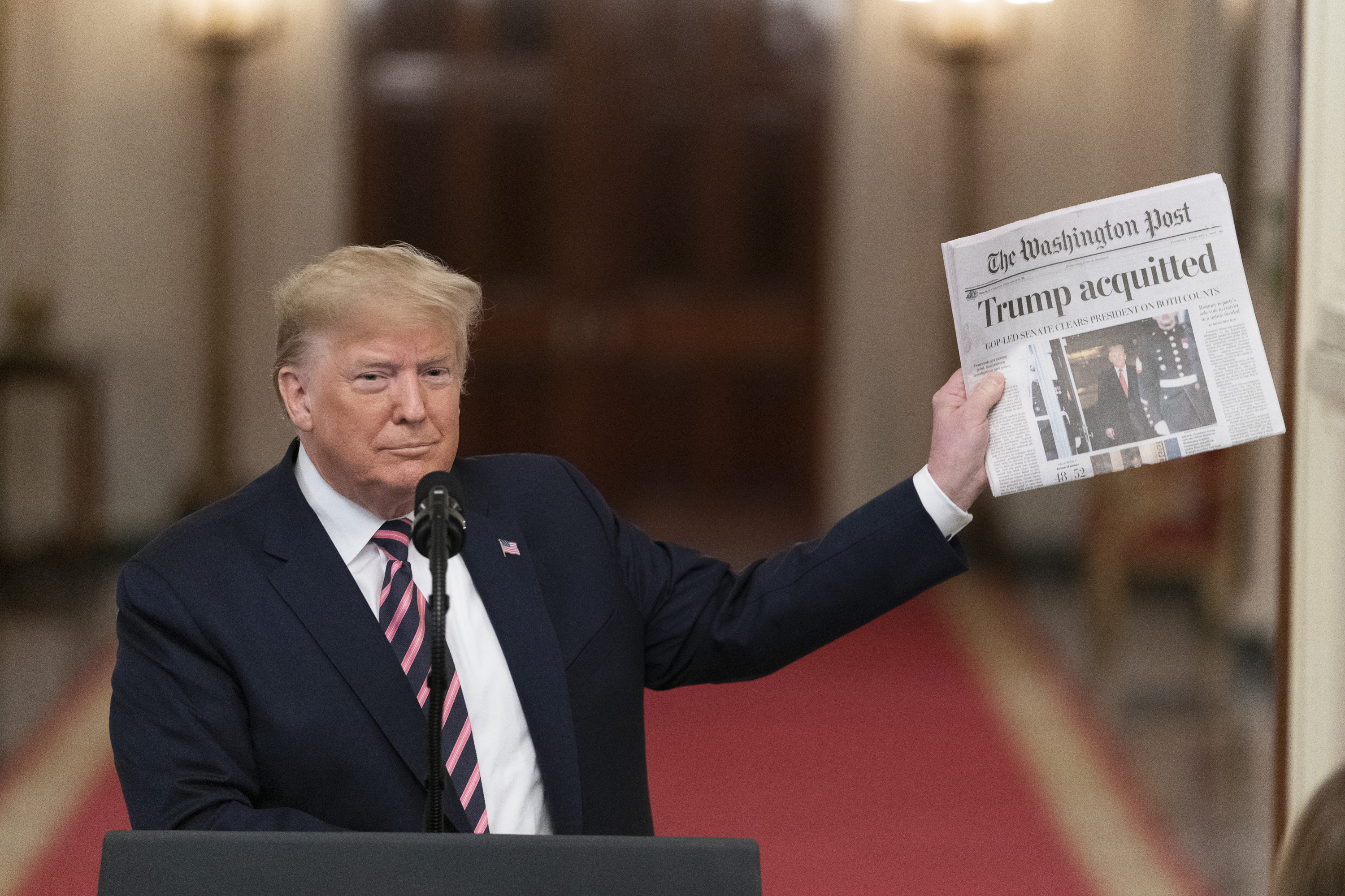 President Donald J. Trump addresses his remarks Thursday, Feb. 6, 2020 in the East Room of the White House, in response to being acquitted of two Impeachment charges. (Official White House Photo by Shealah Craighead)